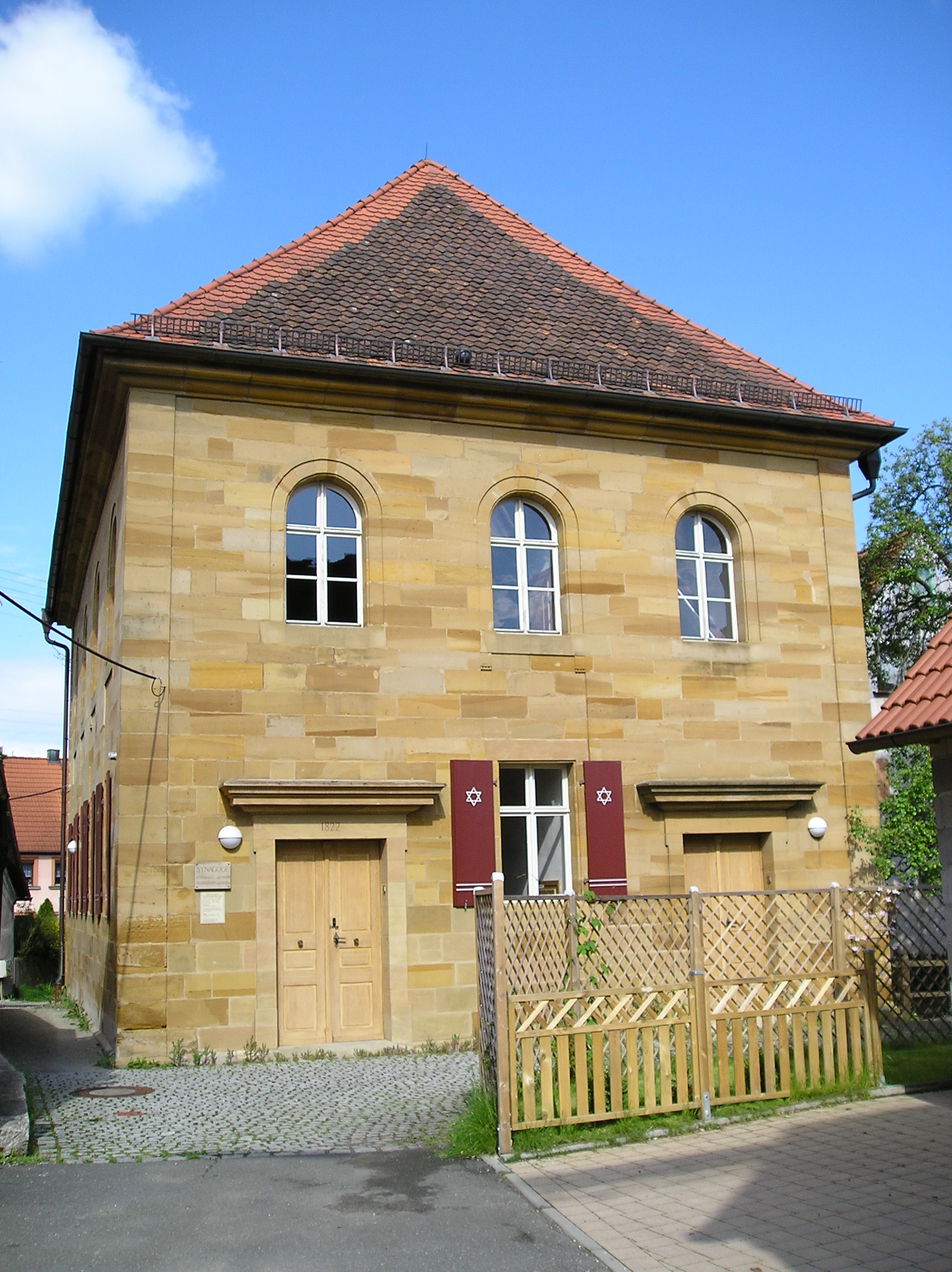 Synagogue of Ermreuth, a village belonging to Neunkirchen am Brand, Bavaria. Germany.